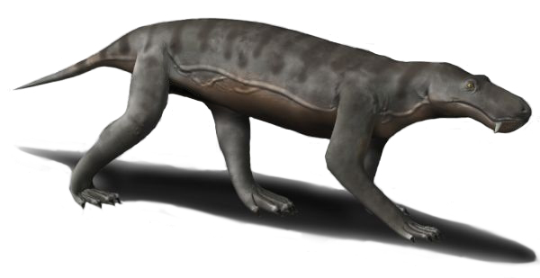 Gorgonops whaitsi, Late Permian of South Africa. digital.